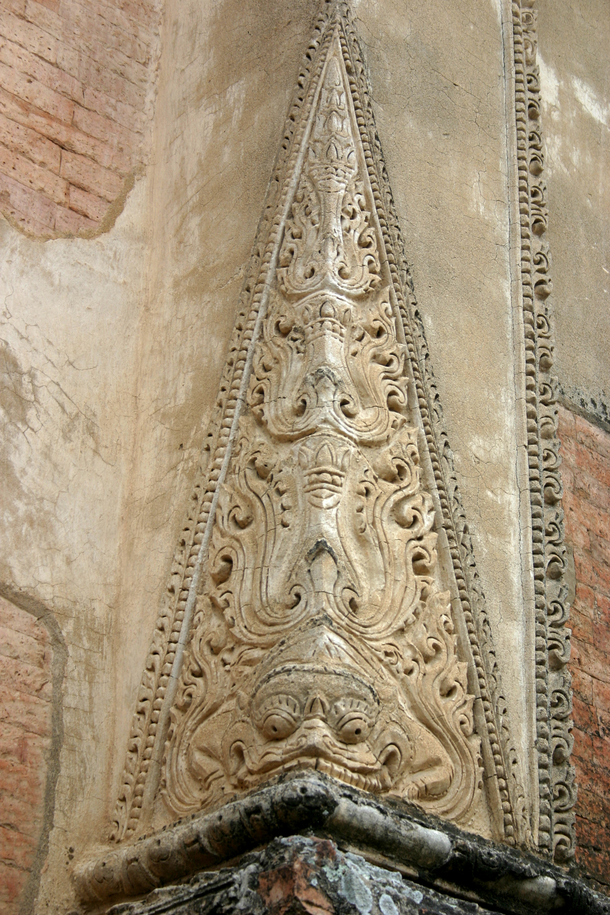 Sulamani temple, Bagan, Myanmar.